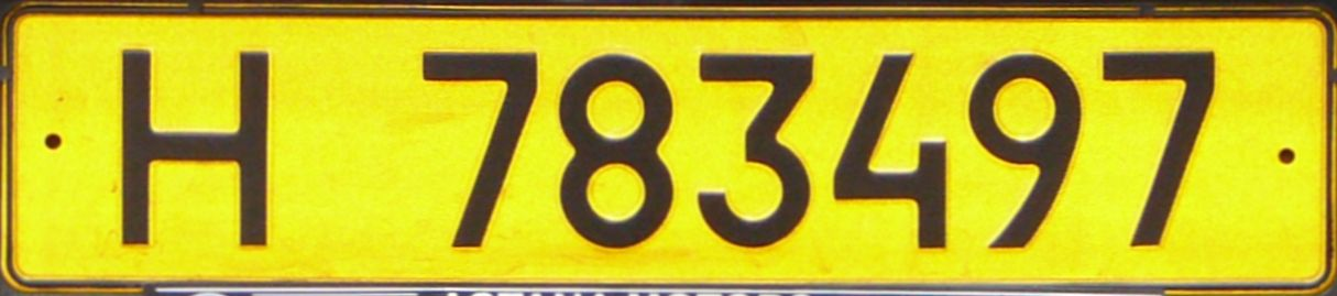 Kazakh License plate for foreigners